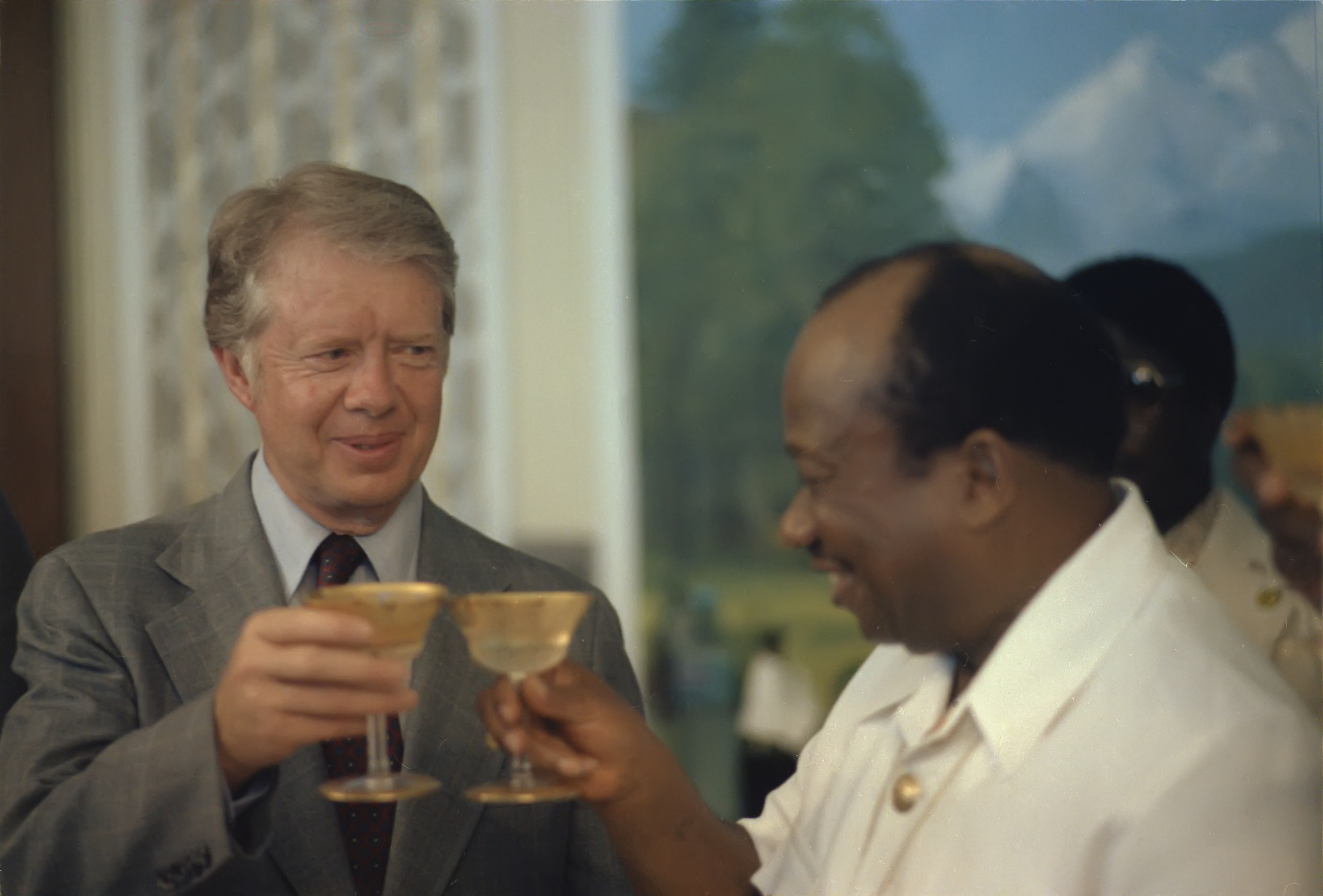 Jimmy Carter and President William Tolbert of Liberia engage in a toast during a state dinner in honor of Jimmy Carter and Rosalynn Carter, 04/03/1978.